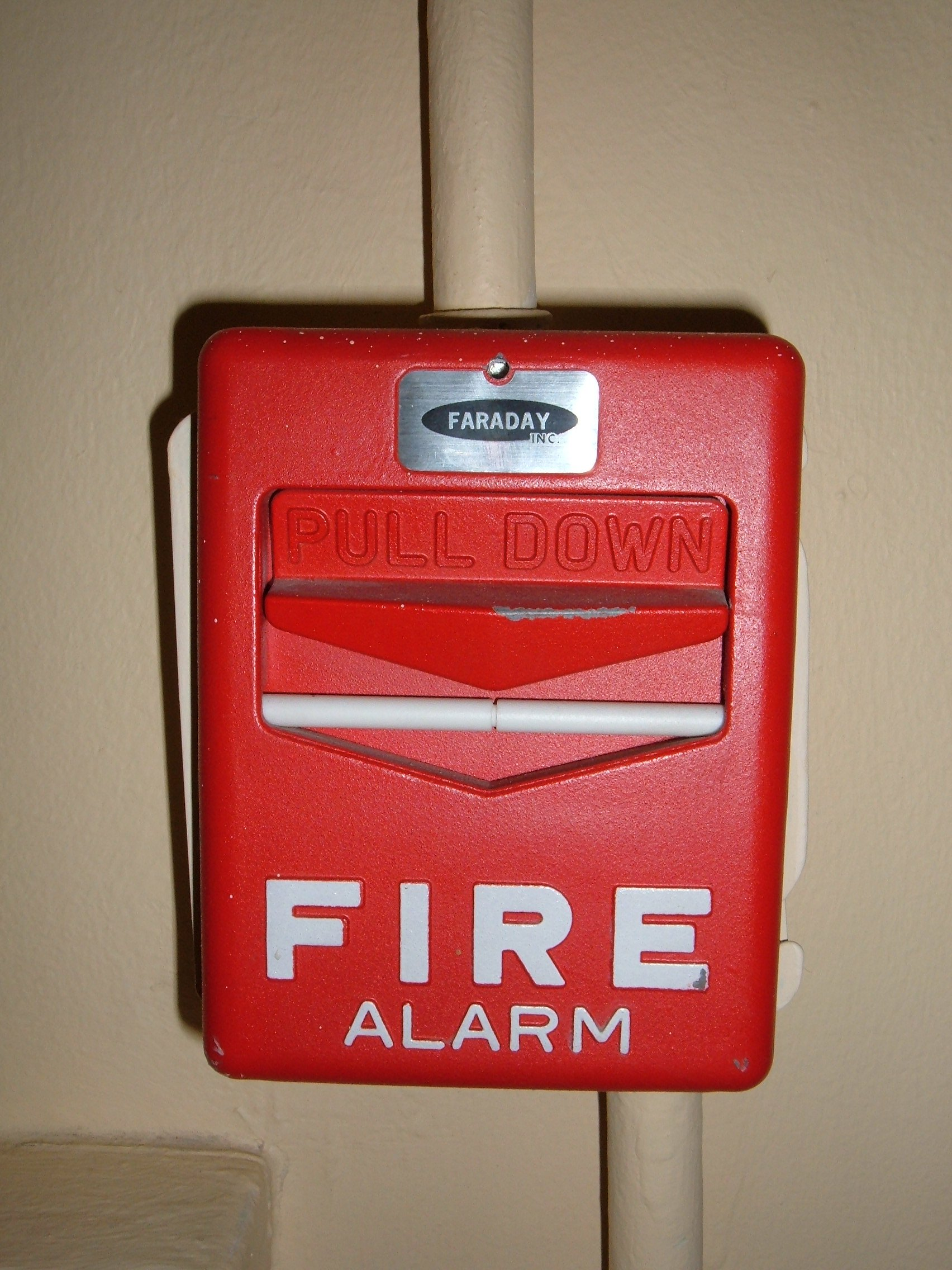 Faraday fire alarm in an office building in San Francisco, California.